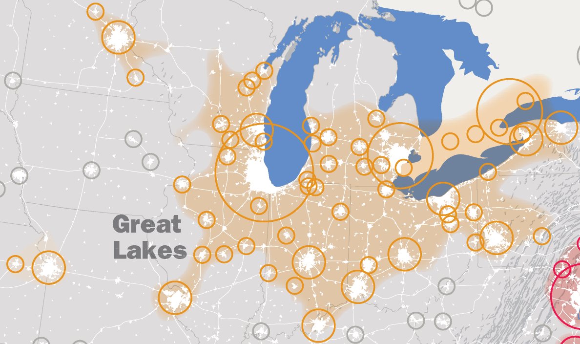 This map, created by the Regional Plan Association, illustrates the ChiPitts megaregion